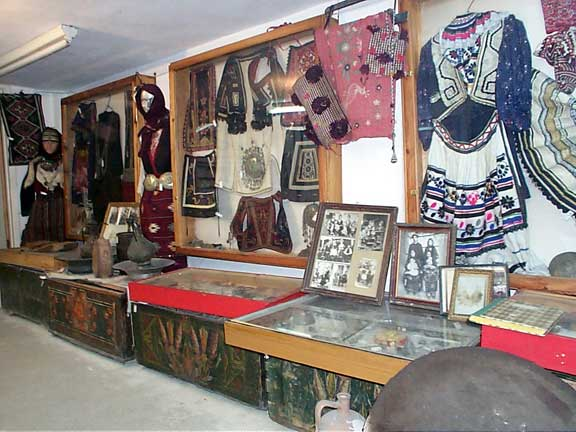 Part of the folklore section, image from the Mihalis Tsartsidis Folklore and History Museum, Sidirokastro, Central Macedonia, Greece